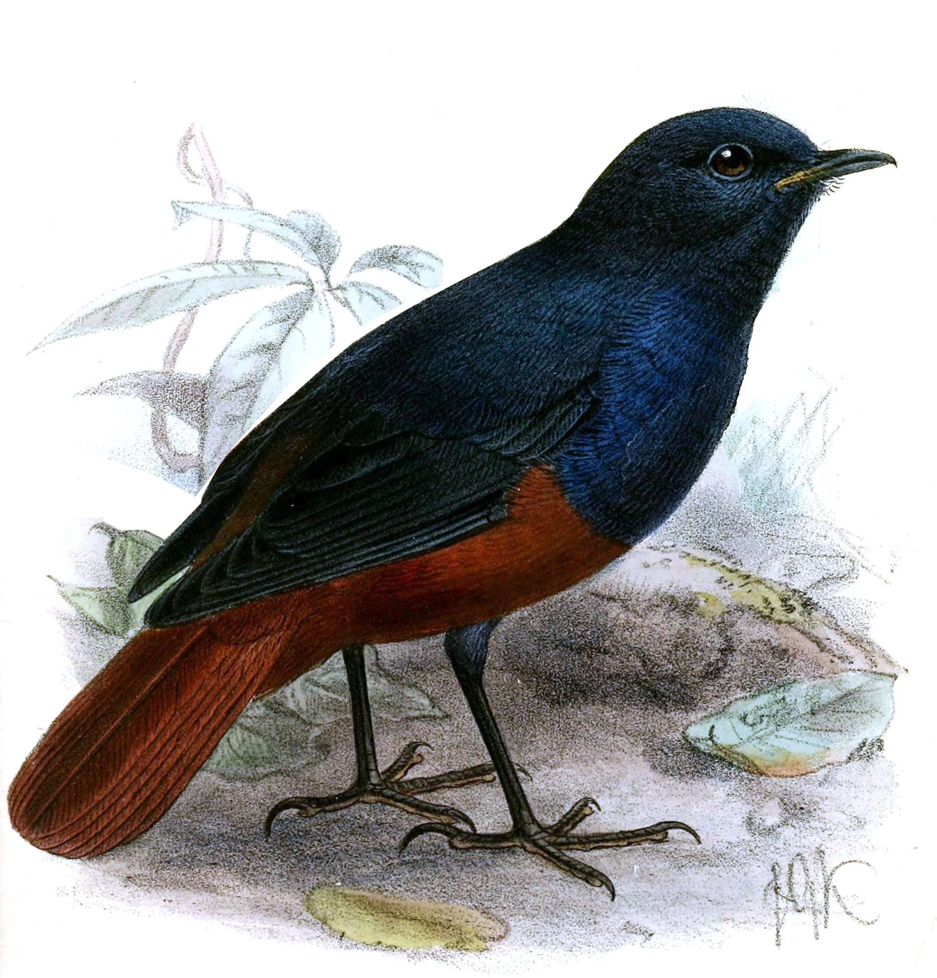 Chimarrhornis bicolor = Rhyacornis bicolor